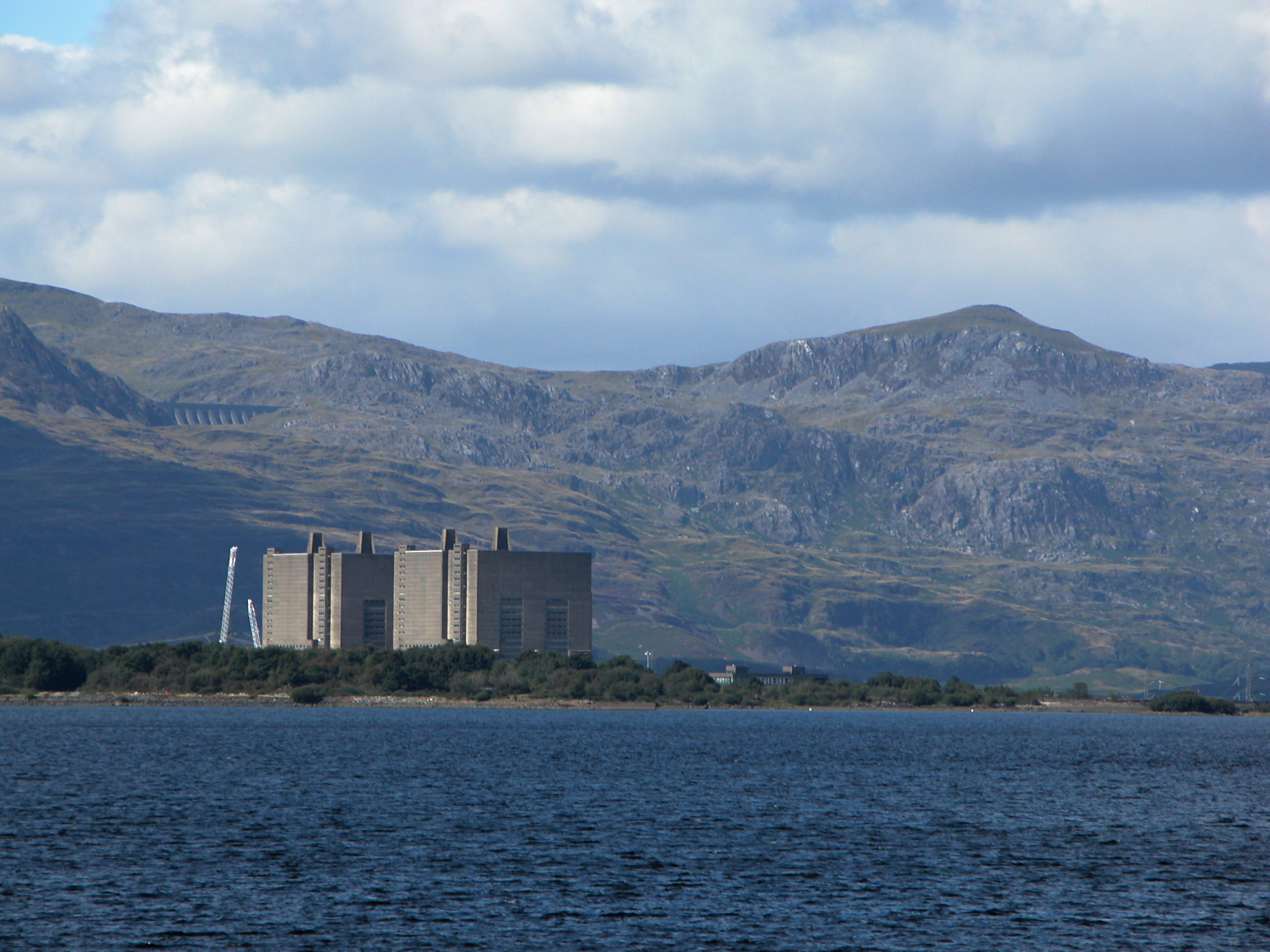 Trawsfynydd power station across the lake. By William M. Connolley, 2006/08.